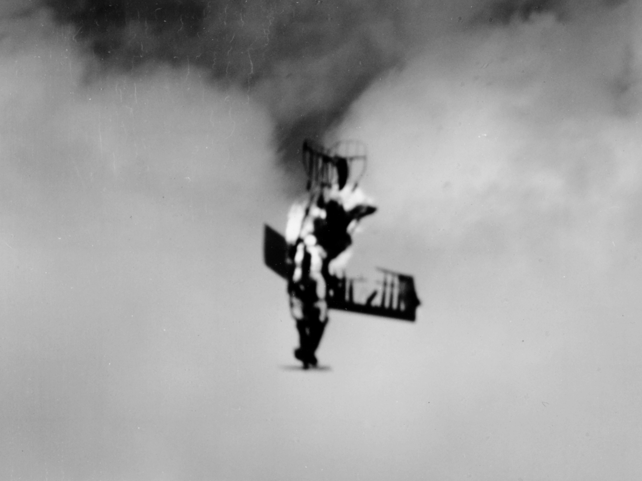 A U.S. Navy TDD target drone falling in flames, after being shot down by the escort carrier USS Makin Island (CVE-93) during gunnery practice off Wakanoura, Japan, 1 October 1945. Note that much of the drone's covering has burned away, exposing internal structure.